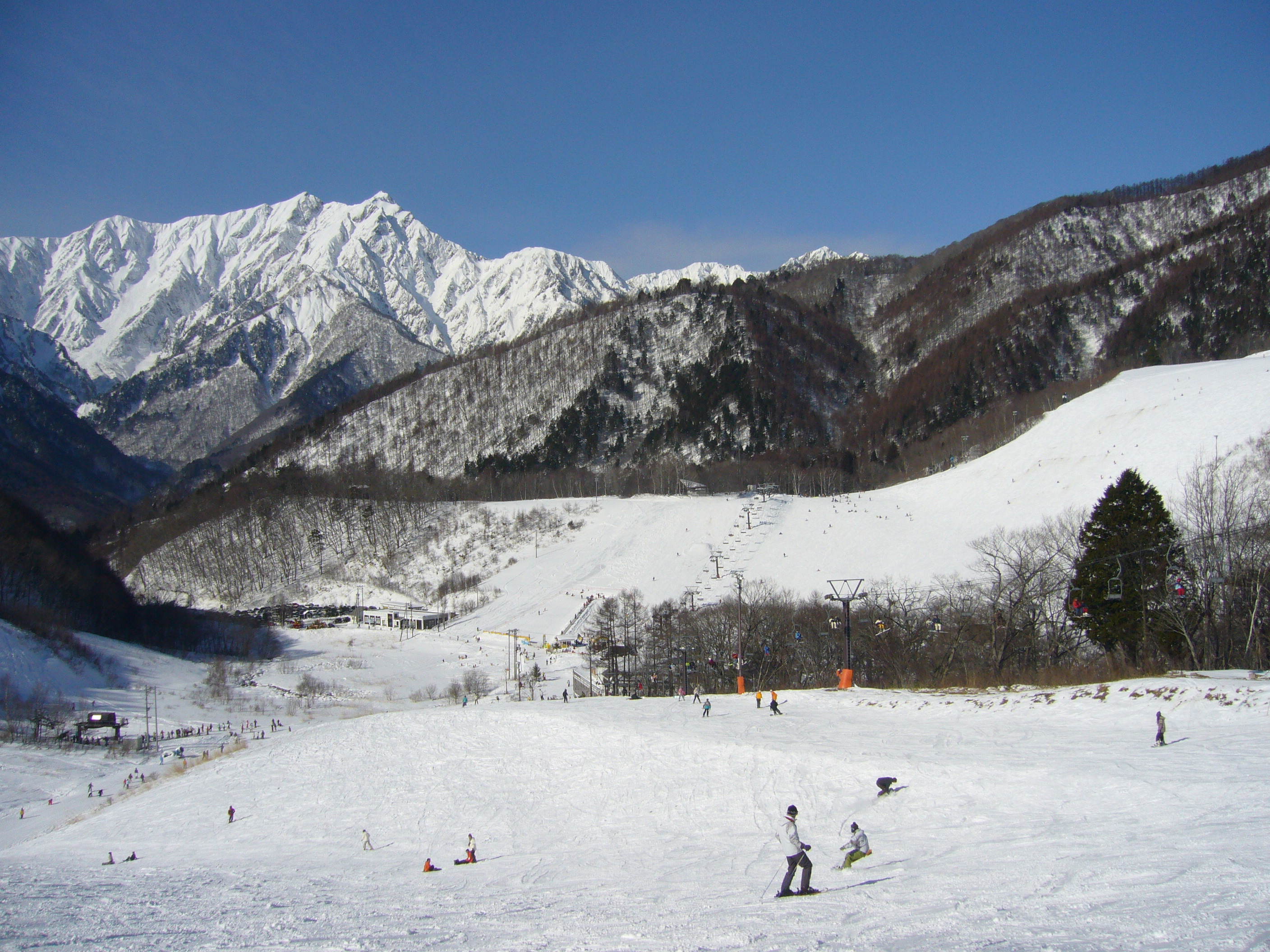 Sun Alpina Kashimayari Ski Resort and Hida Mountains, in Ōmachi, Nagano, Japan.